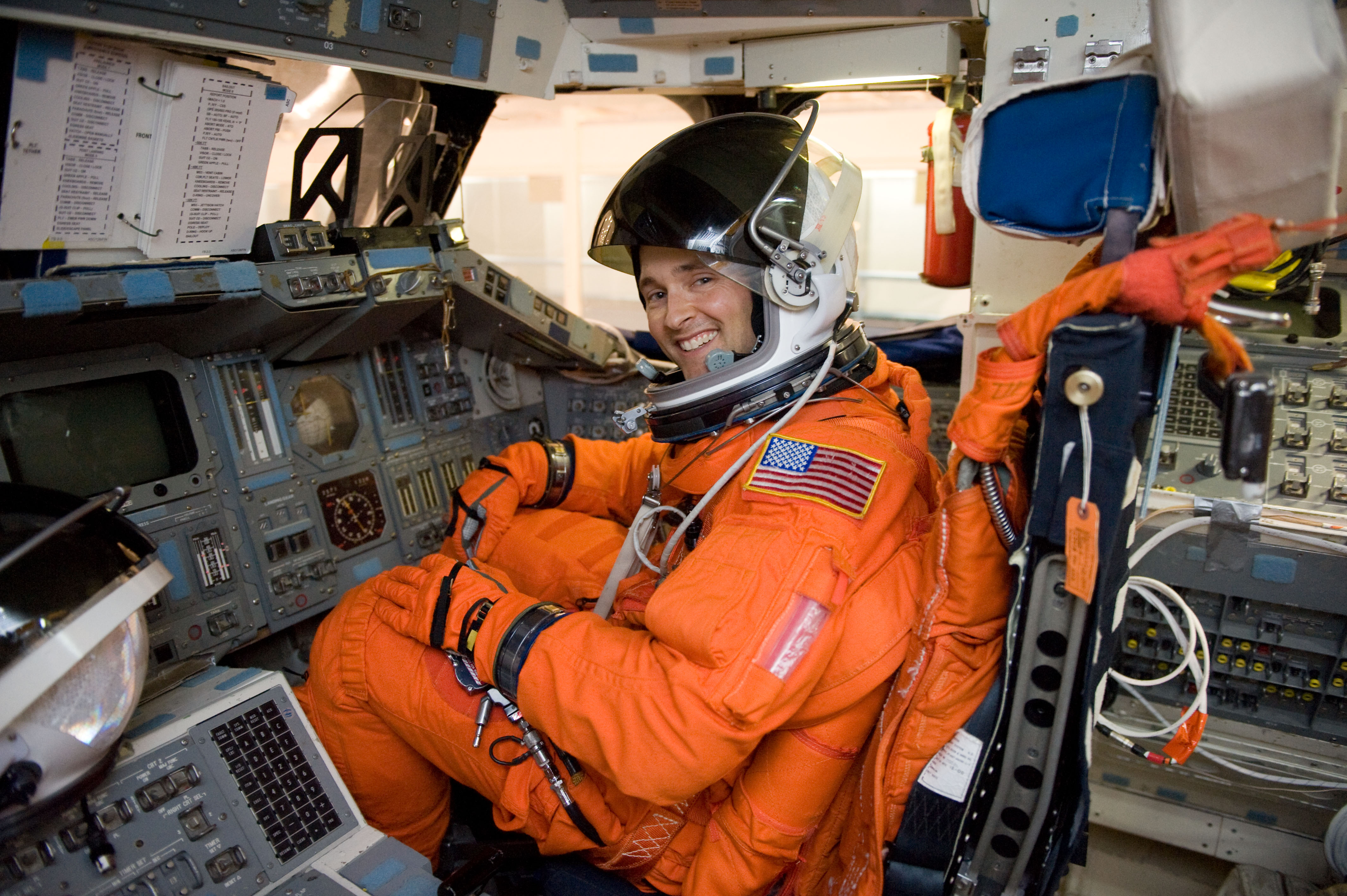 NASA astronaut James P. Dutton Jr., STS-131 pilot, attired in a training version of his shuttle launch and entry suit, occupies the pilot's station on the flight deck of the Full Fuselage Trainer (FFT) in the Space Vehicle Mock-up Facility at NASA's Johnson Space Center.